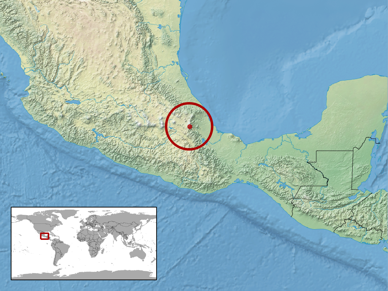 geographic distribution of Mesaspis antauges (Native: Mexico)